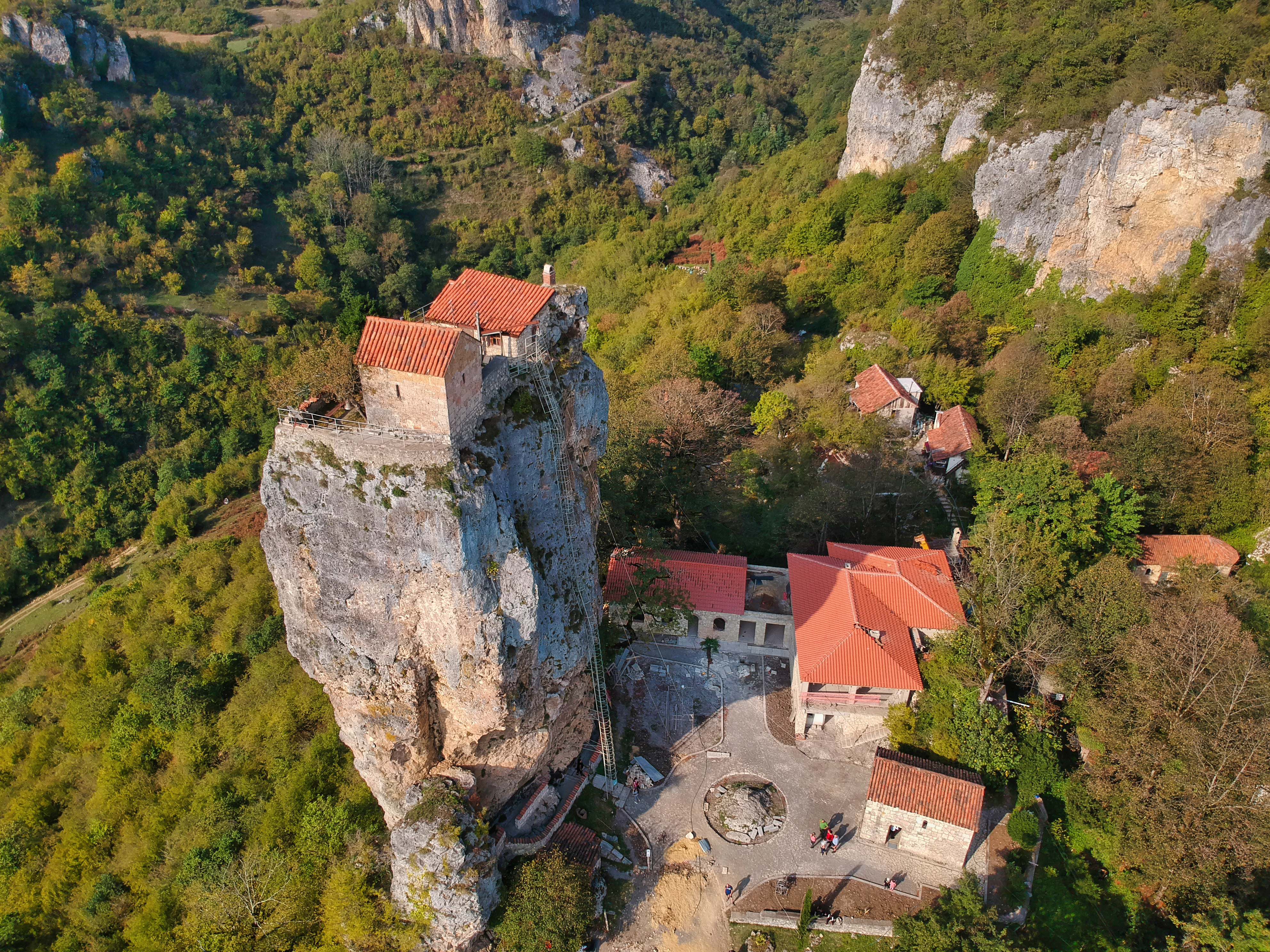 Katskhi Pillar, Georgia. From a drone